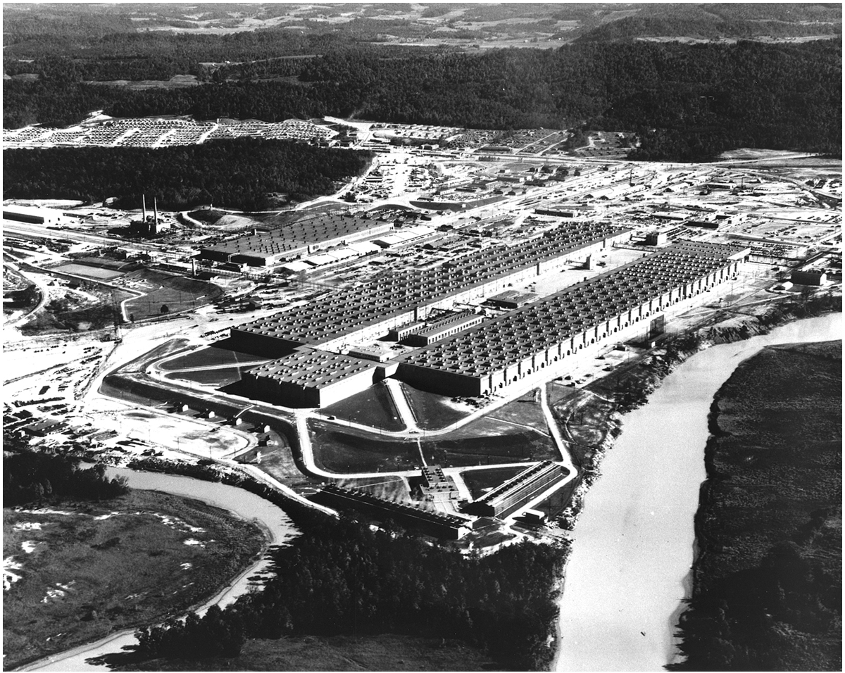 Aerial view of K-25 gaseous diffusion plant. The plant measured half a mile by 1,000 feet